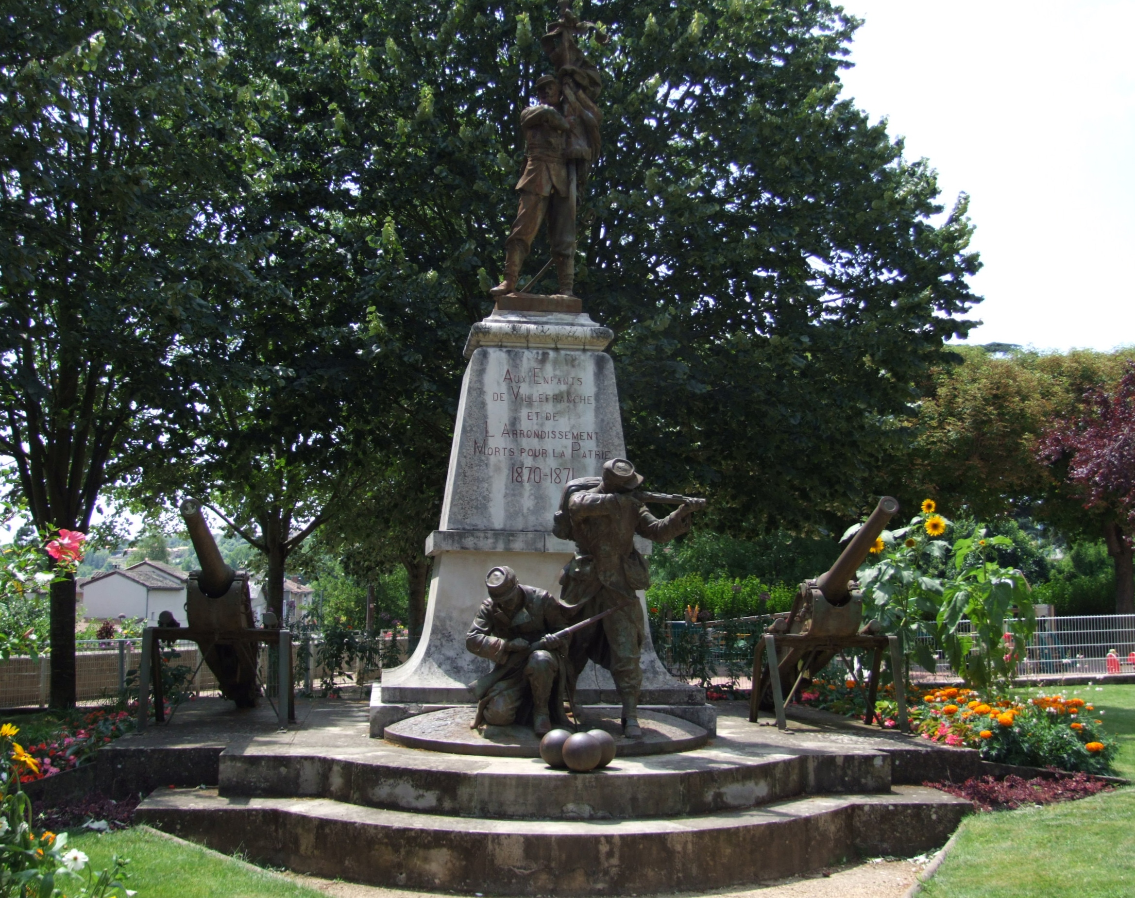 Villefranche-de-Rouergue, Aveyron, FRANCE